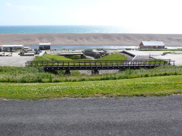 Wyke Regis Bridging Hard The bridging hard is an army facility purpose built for engineer training on a wide range of different bridge types. The have numerous bridges and bridging situations such as those in the photo. The Fleet lagoon behind is used for water based training. Chesil beach can be seen in the background.